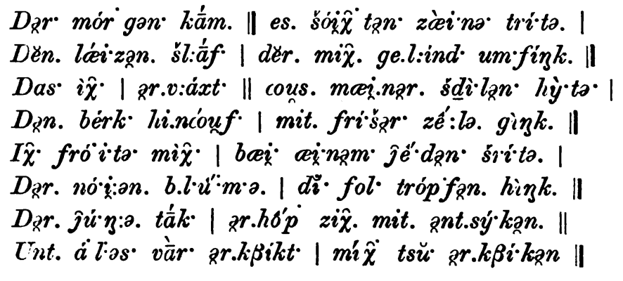 Sample of Bremer’s phonetic transcription from 1893 (showing ꭃ).